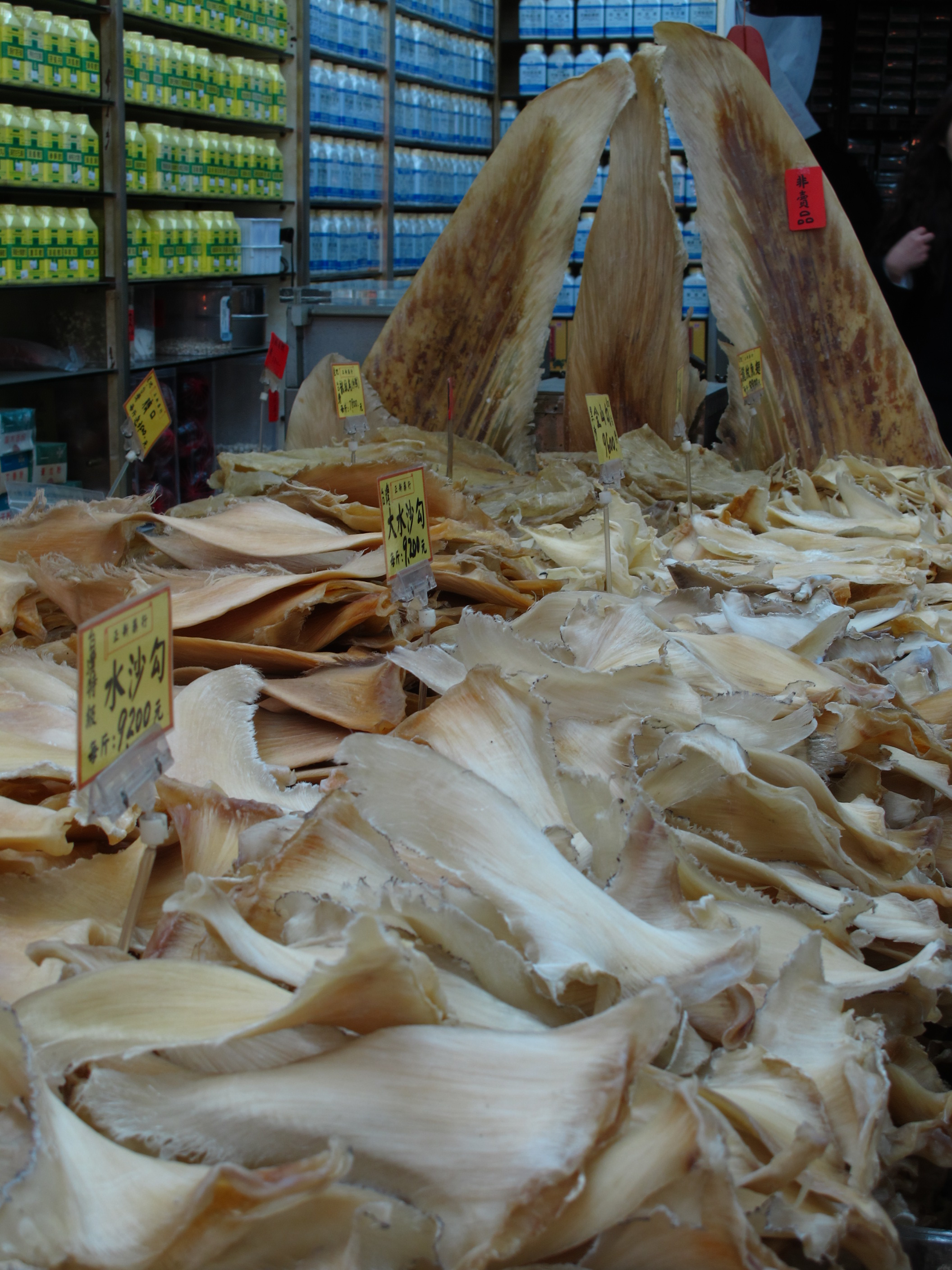 Shark fins at Dihua Street, Taipei City, Taiwan